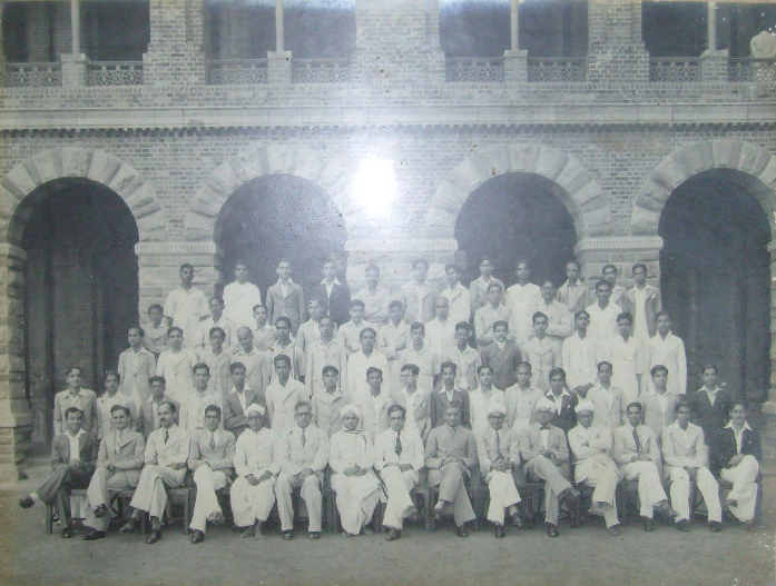 Presidency College, Chennai - Senior Intermediates Mathematics Group, Breakup Social, March 3, 1941